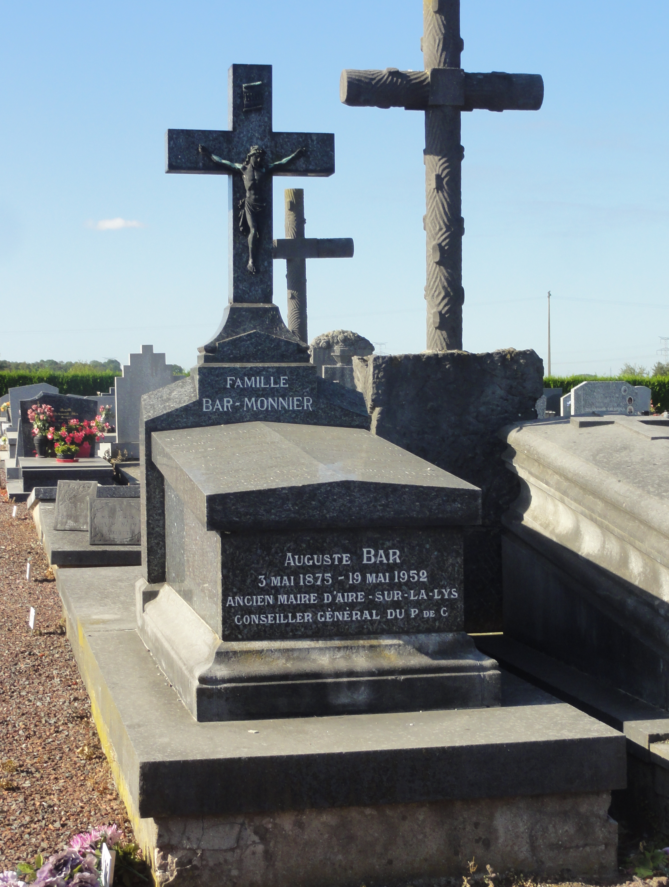 Depicted place: Q67929200